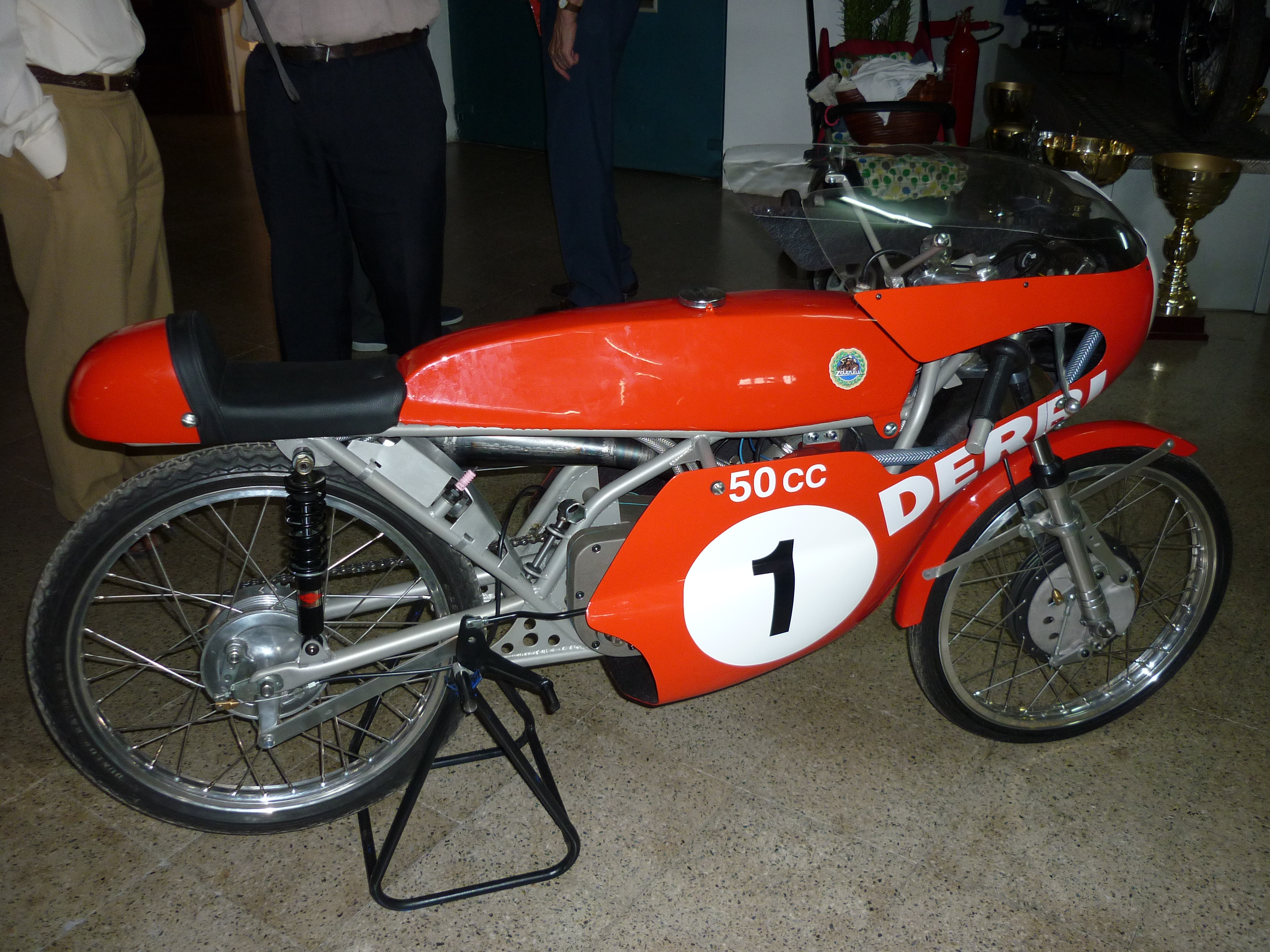 Derbi 50cc GP 1969 World Champion replica. Isern Motorcycle Museum, Mollet del Vallès (Catalonia).